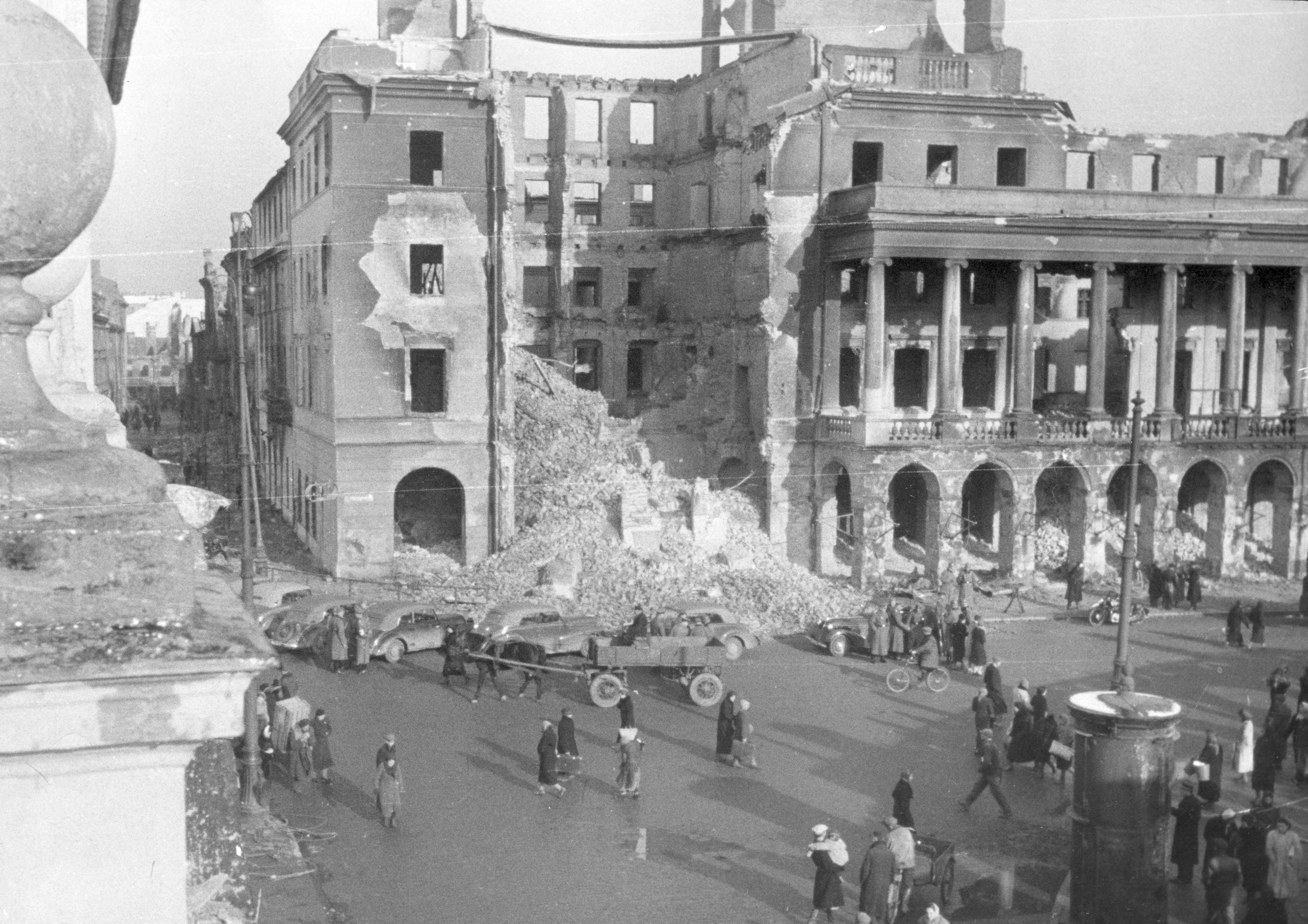 Lubomirski Palace burned down by the Germans in September 1939